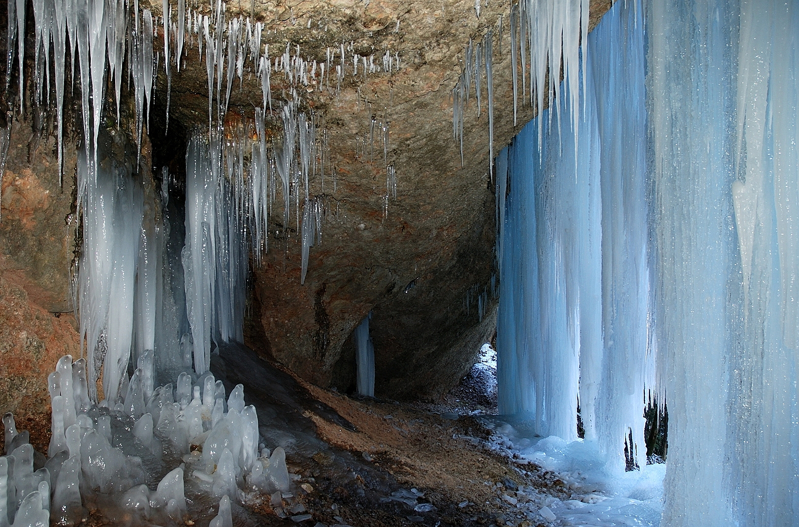 Eistobel, natural reserve, Bavaria. In winter 2009, temperatures were at −18 °C for some days. All waterfalls were frozen to ice caves.